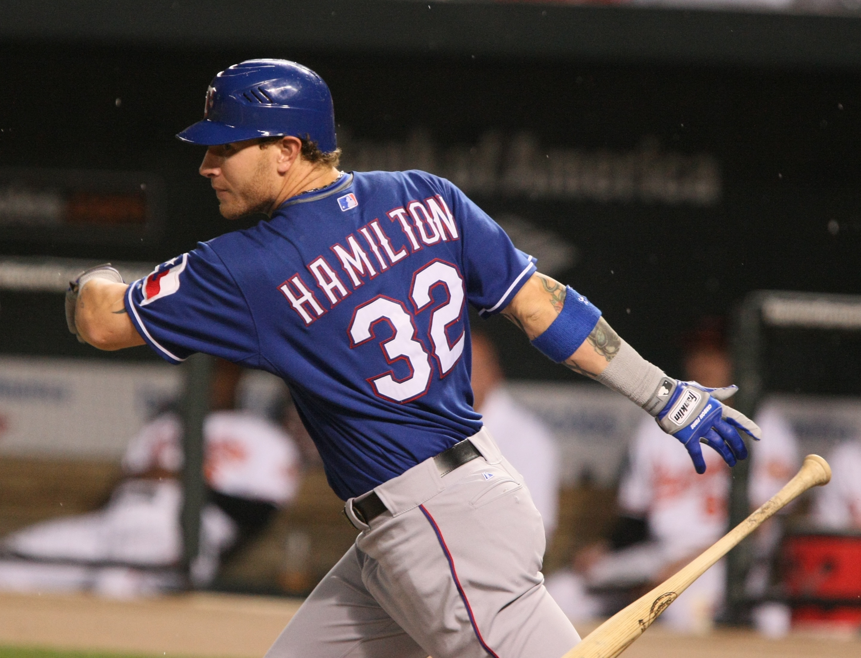 Josh Hamilton